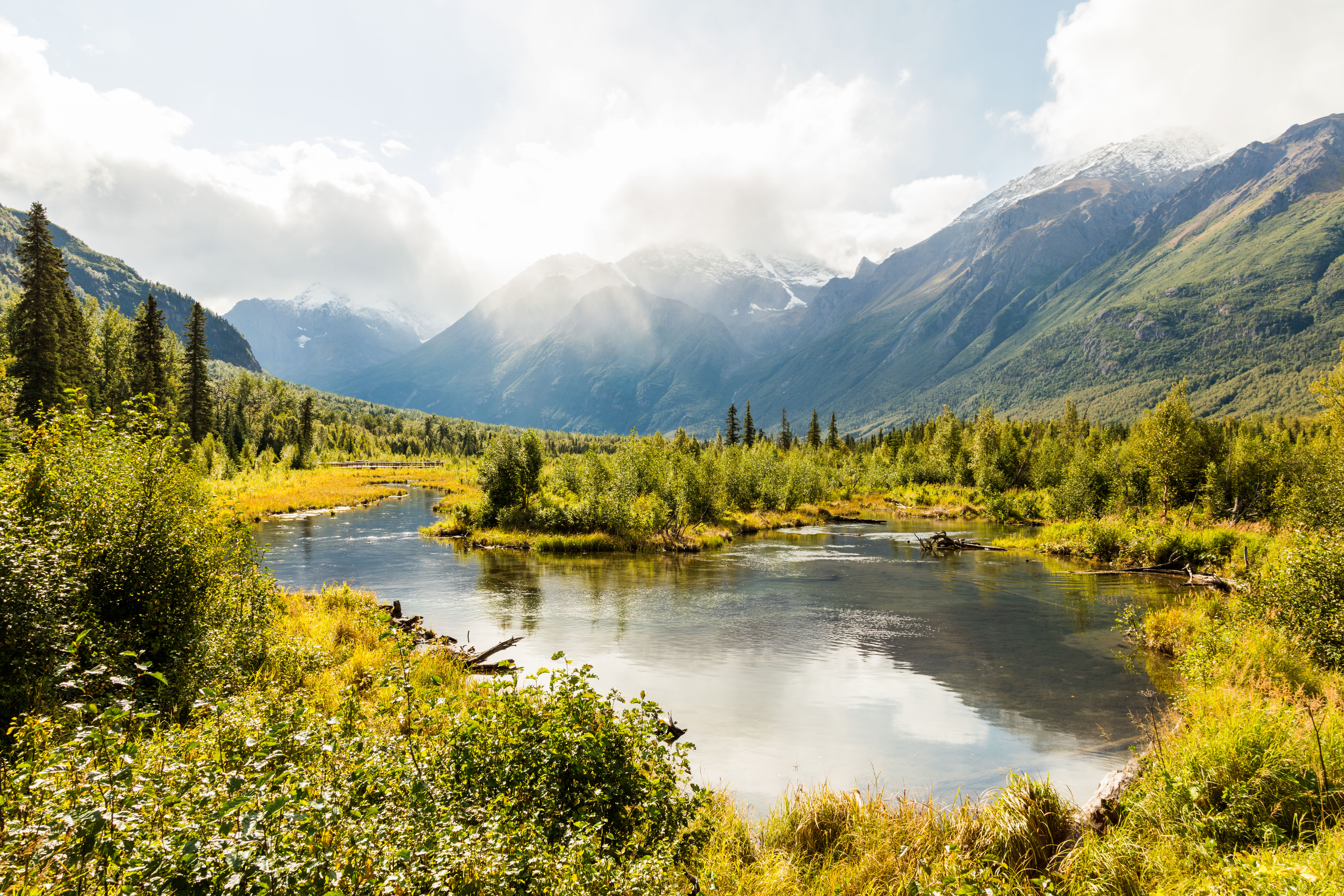 Eagle River Park, Anchorage, Alaska, United States